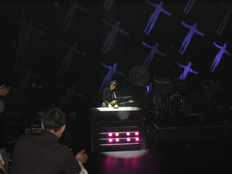 Matthew Bellamy playing the piano during Citizen Erased.